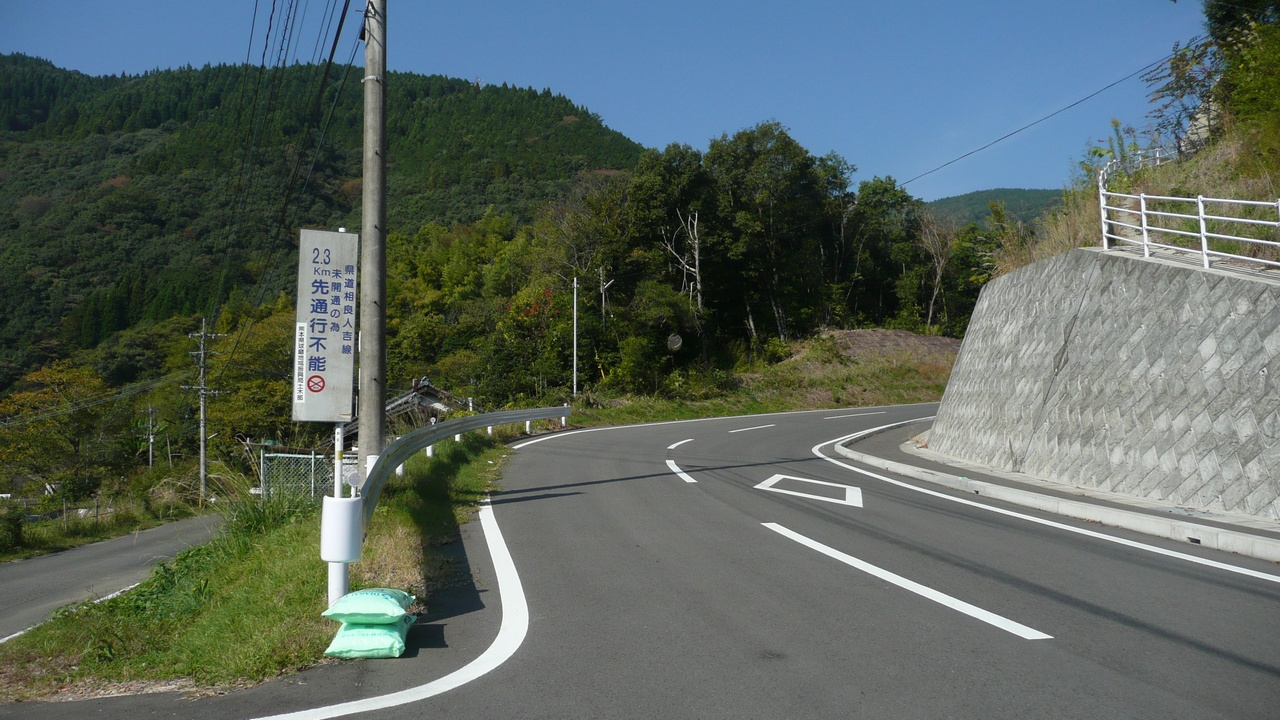 Kumamoto Prefectural Road No.162 Origin (Sagara Village, Kumamoto, Japan)